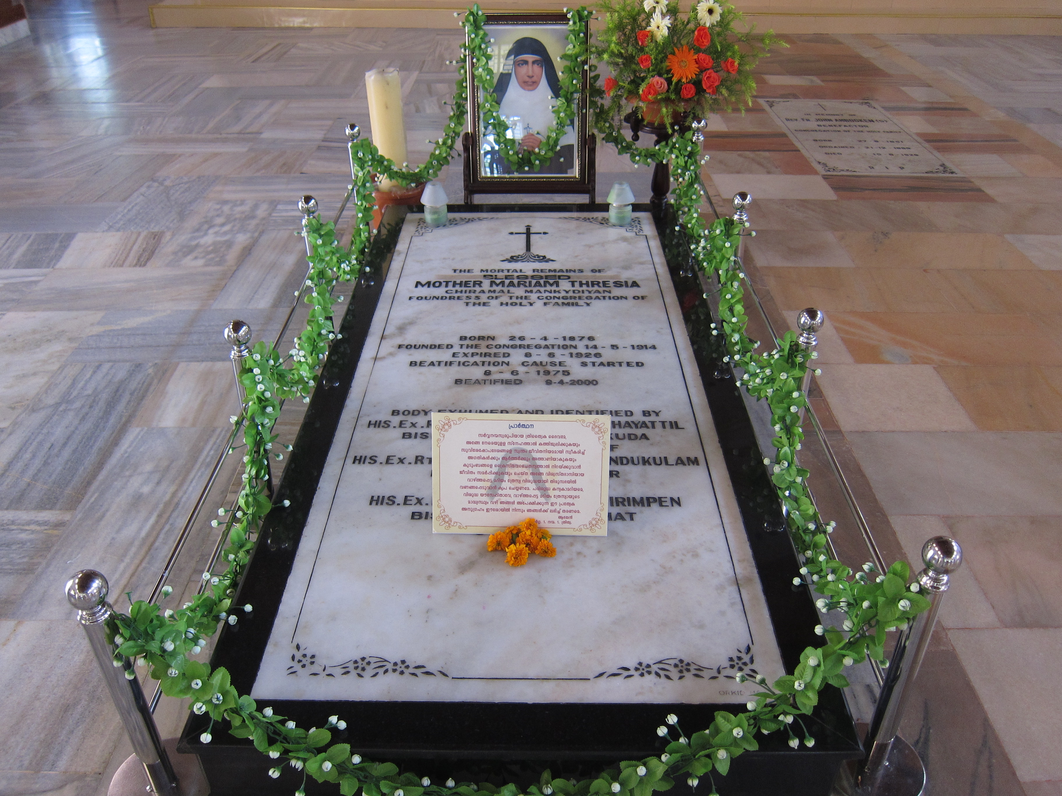 Mariam Thresia - മറിയം ത്രേസ്യ Kuzhikkattussery കുഴിക്കാട്ടുശ്ശേരി Mala Panhchayat മാള പഞ്ചായത്ത് Thrissur District തൃശ്ശൂർ ജില്ല